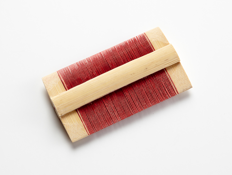 Chambit (fine-tooth comb)